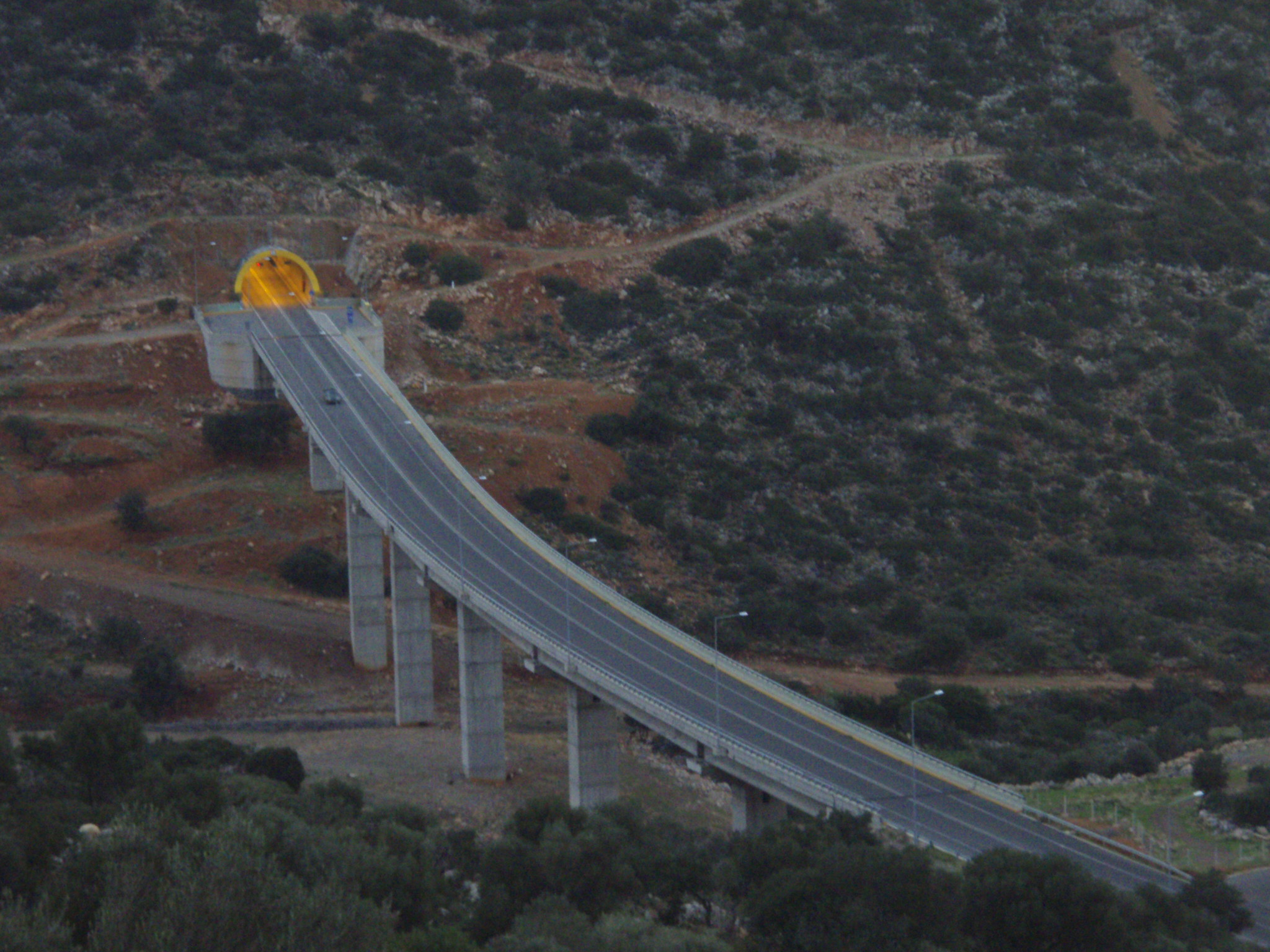 A tunnel and a bridge on the Greek National Road 90 (E75) in Heraklion, Crete